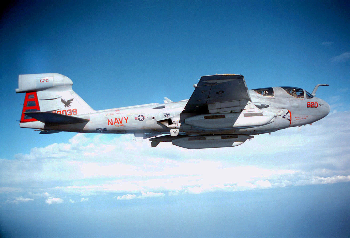 An EA-6B Prowler aircraft from the "Patriots" of Tactical Electronic Warfare Squadron One Four Zero (VAQ 140) patrols the skies over Bosnia and Herzegovina. VAQ 140 is part of Carrier Air Wing Seven (CVW 7), embarked on board the US Navy's nuclear powered aircraft carrier USS GEORGE WASHINGTON (CVN 73) (not shown). The George Washington is on a scheduled six-month deployment to the Mediterranean, and has been operating in the Adriatic Sea in support of the NATO-led Operation JOINT ENDEAVOR.